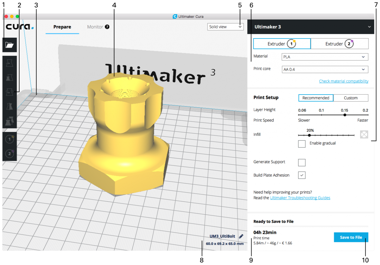 sofware Cura